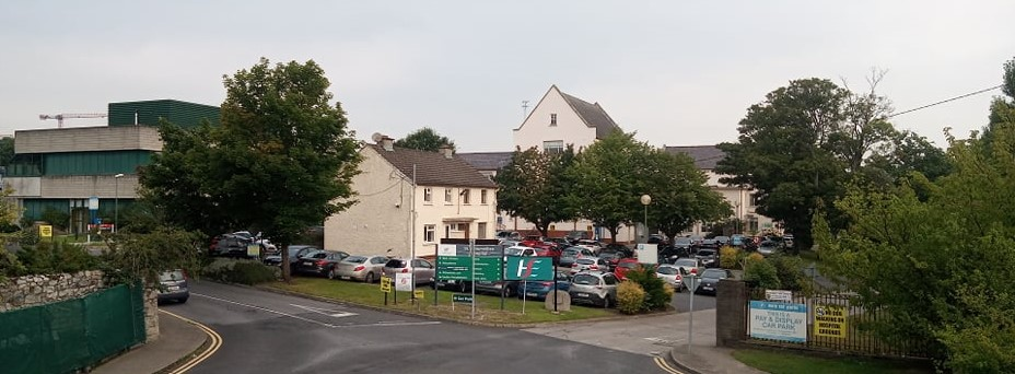 St. Columcille's Hospital, Loughlinstown front entrance